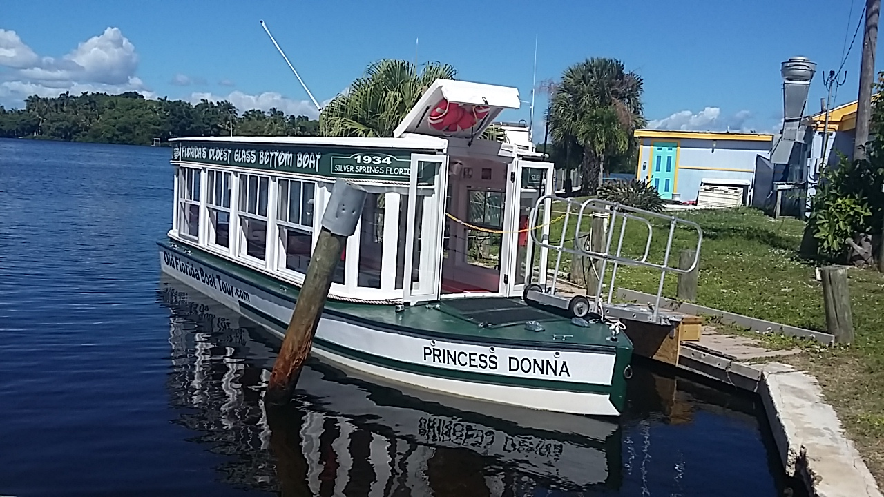 Built in 1934 this is the oldest operational glass bottom boat